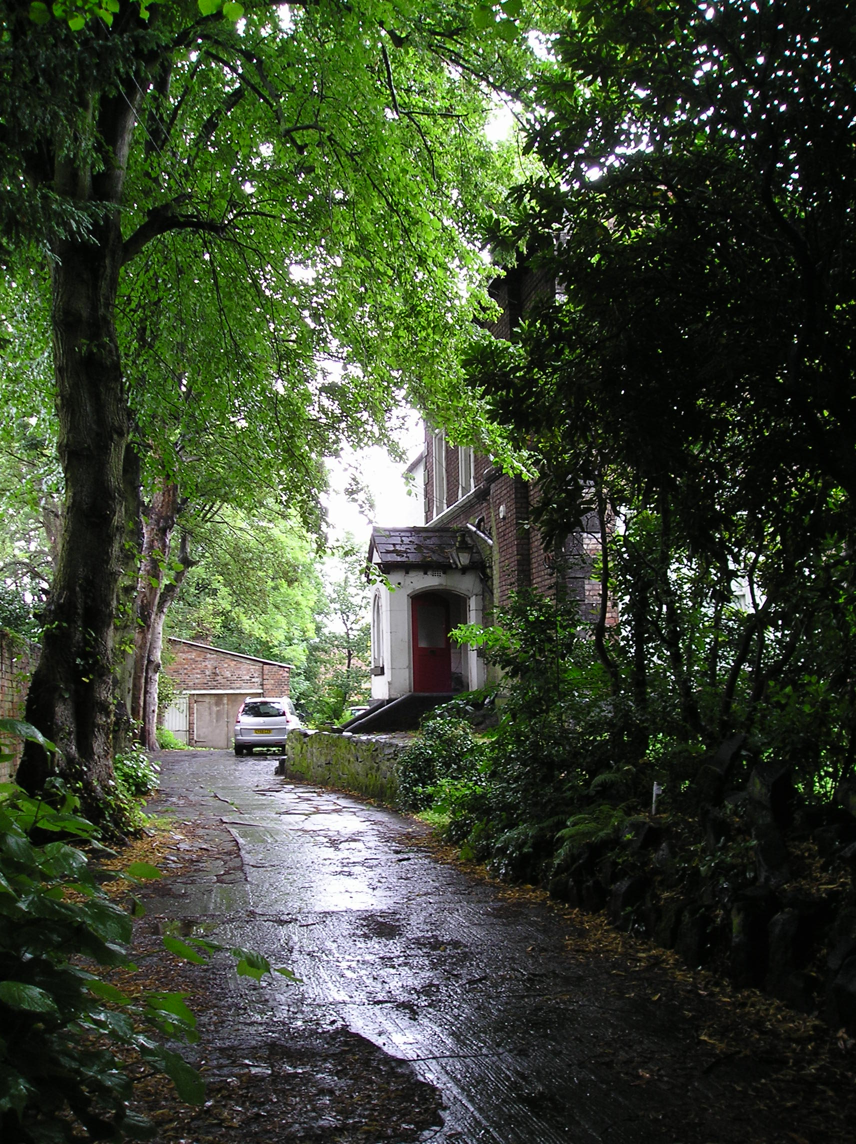 Casbah Coffee Club, 8 Hayman's Green, West Derby, Liverpool 12